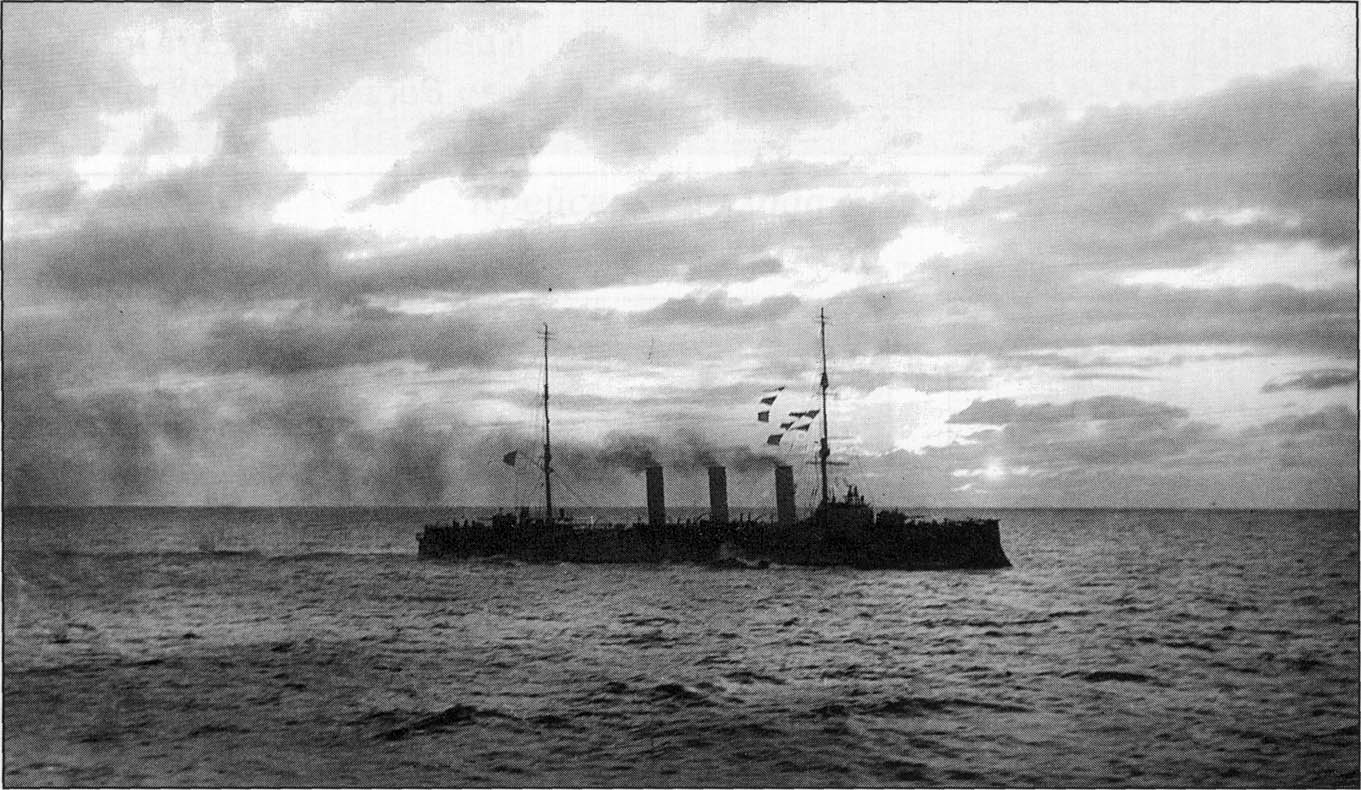 Imperial Russian cruiser Pamyat' Merkuriya.